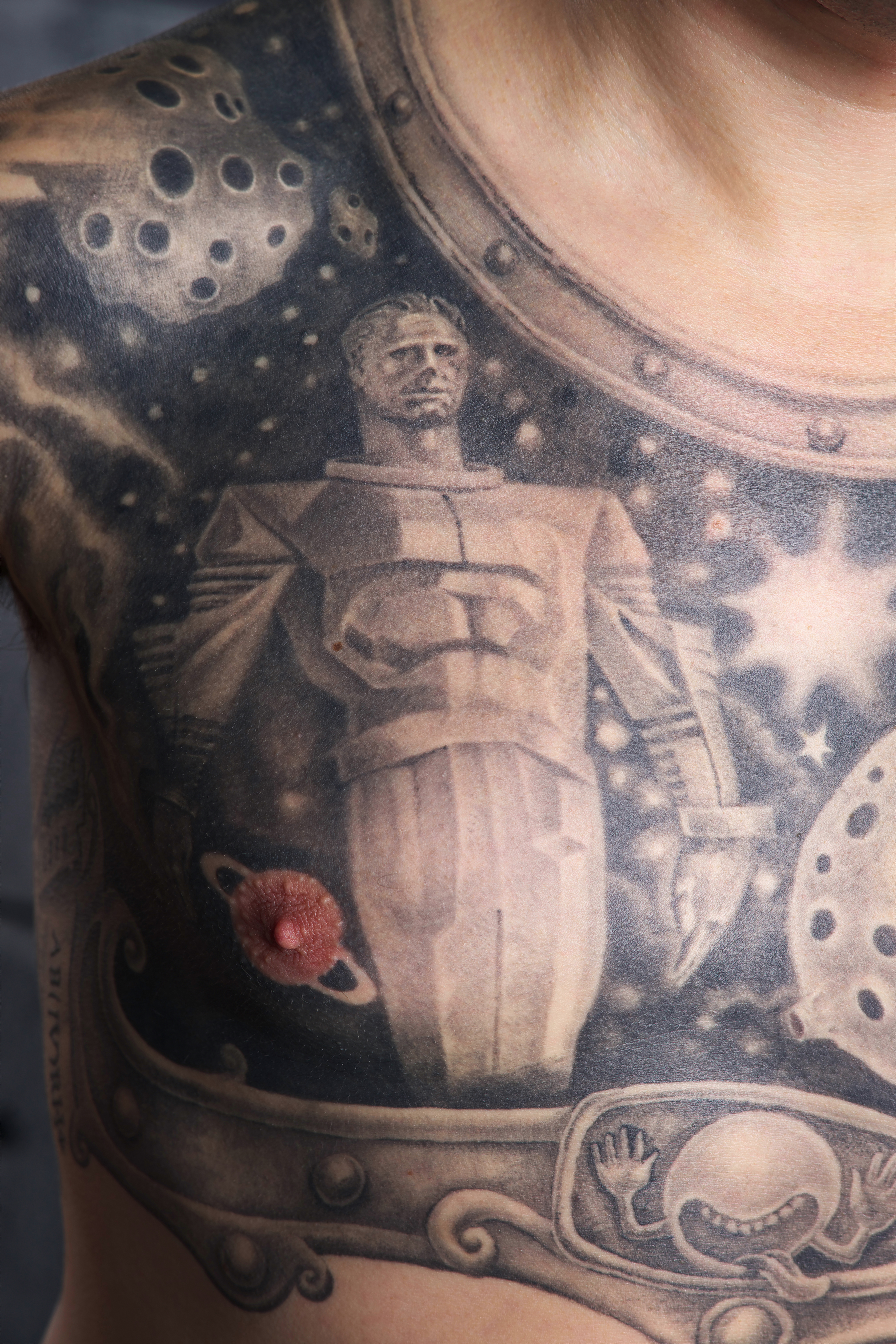 Right chest tattoo. Monument to Yuri Gagarin located at Leninsky Avenue, Moscow, Russia.